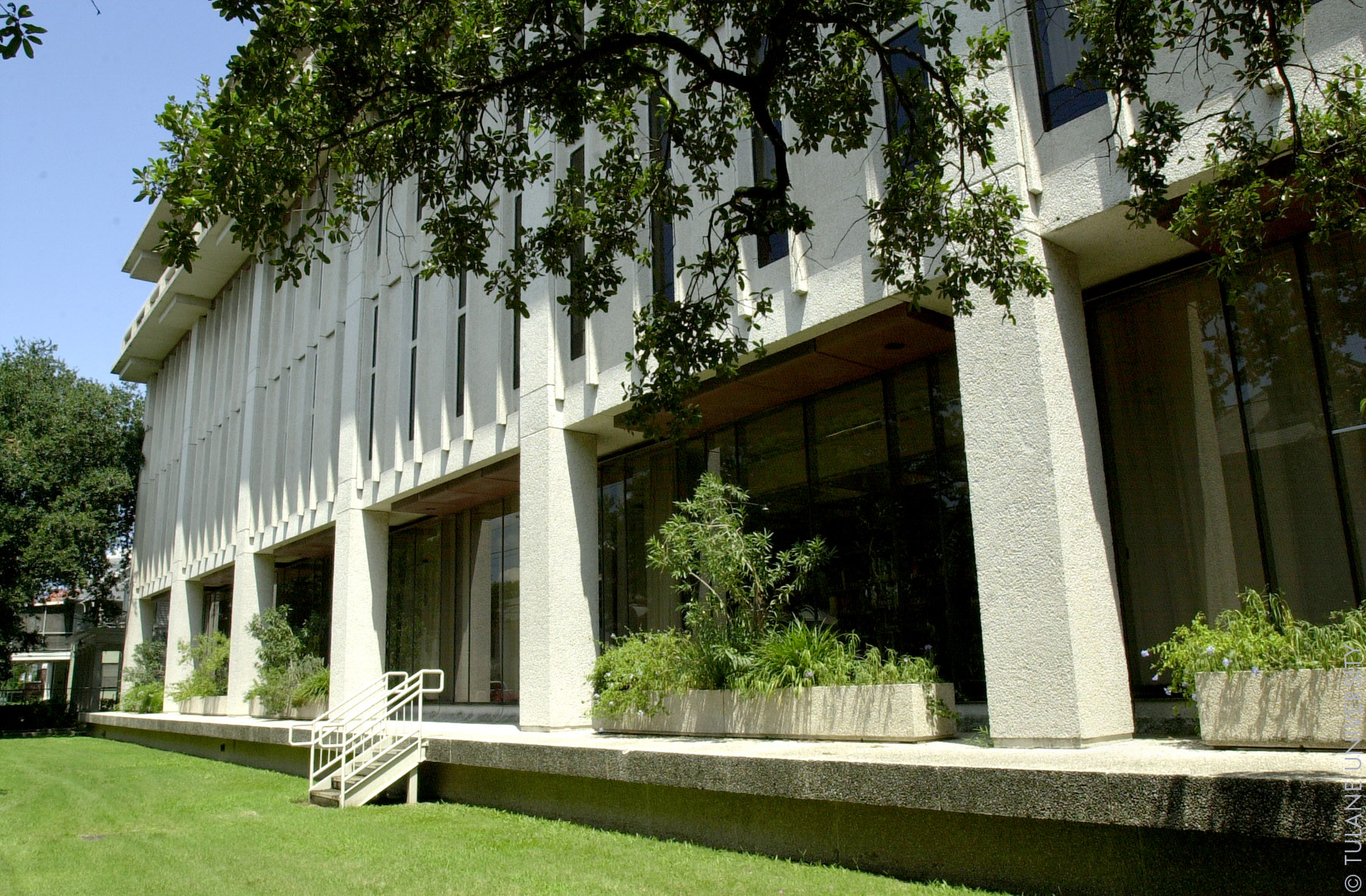 Howard-Tilton Library, Tulane University, New Orleans.